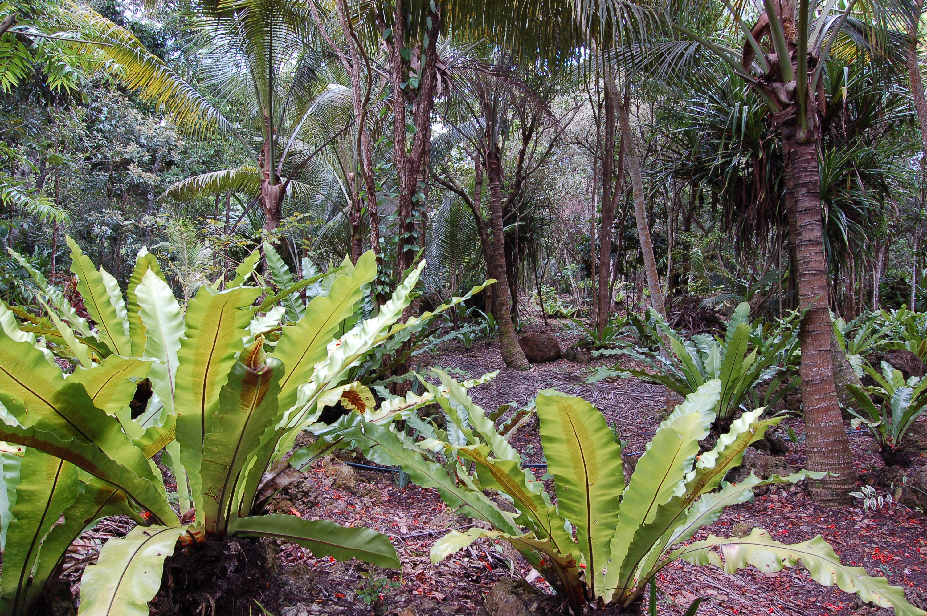 View of plants growing at a vanilla plantation near Mucaweng, Lifou, New Caledonia. The object location for this file is approximate only.